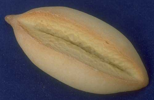 Picture of Navette